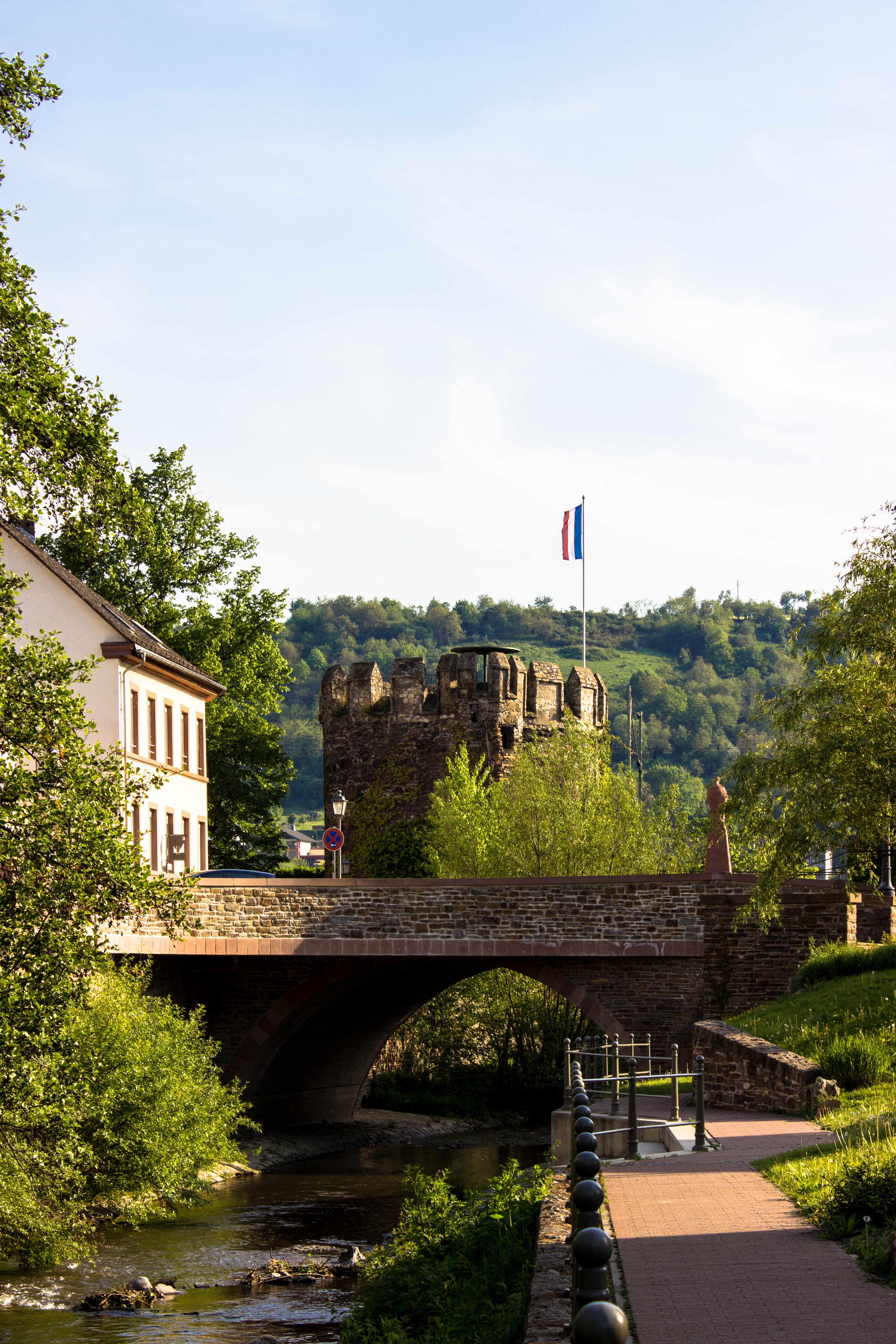 A picture of a Bridge in Lorch on the Wisper.